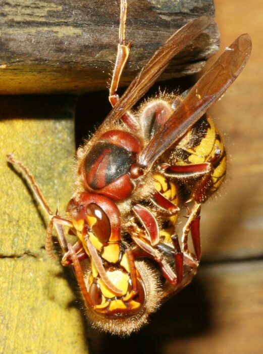 Description: European Hornets at ritualistic fighting over 20 minutes, but no injuries